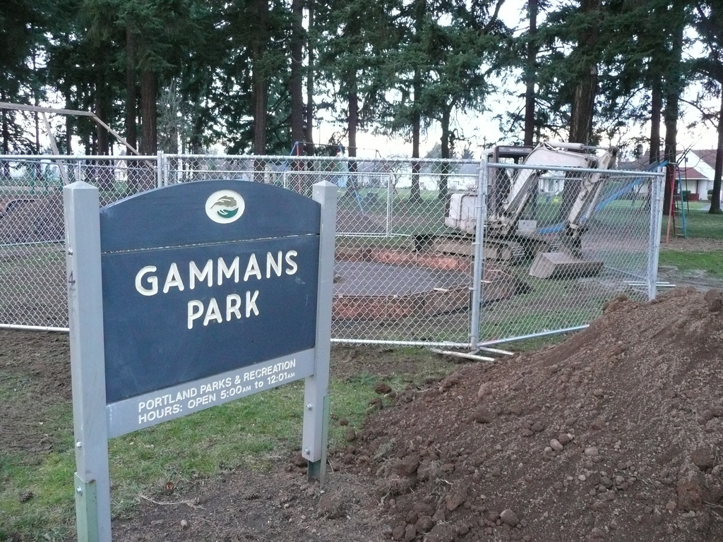 The sign for Gammans Park in Portland, Oregon, in front of a new carousel under construction